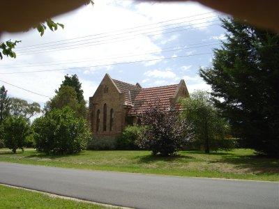 Bloomfield Hospital, Orange: Bloomfield Hospital. The Mortuary Chapel